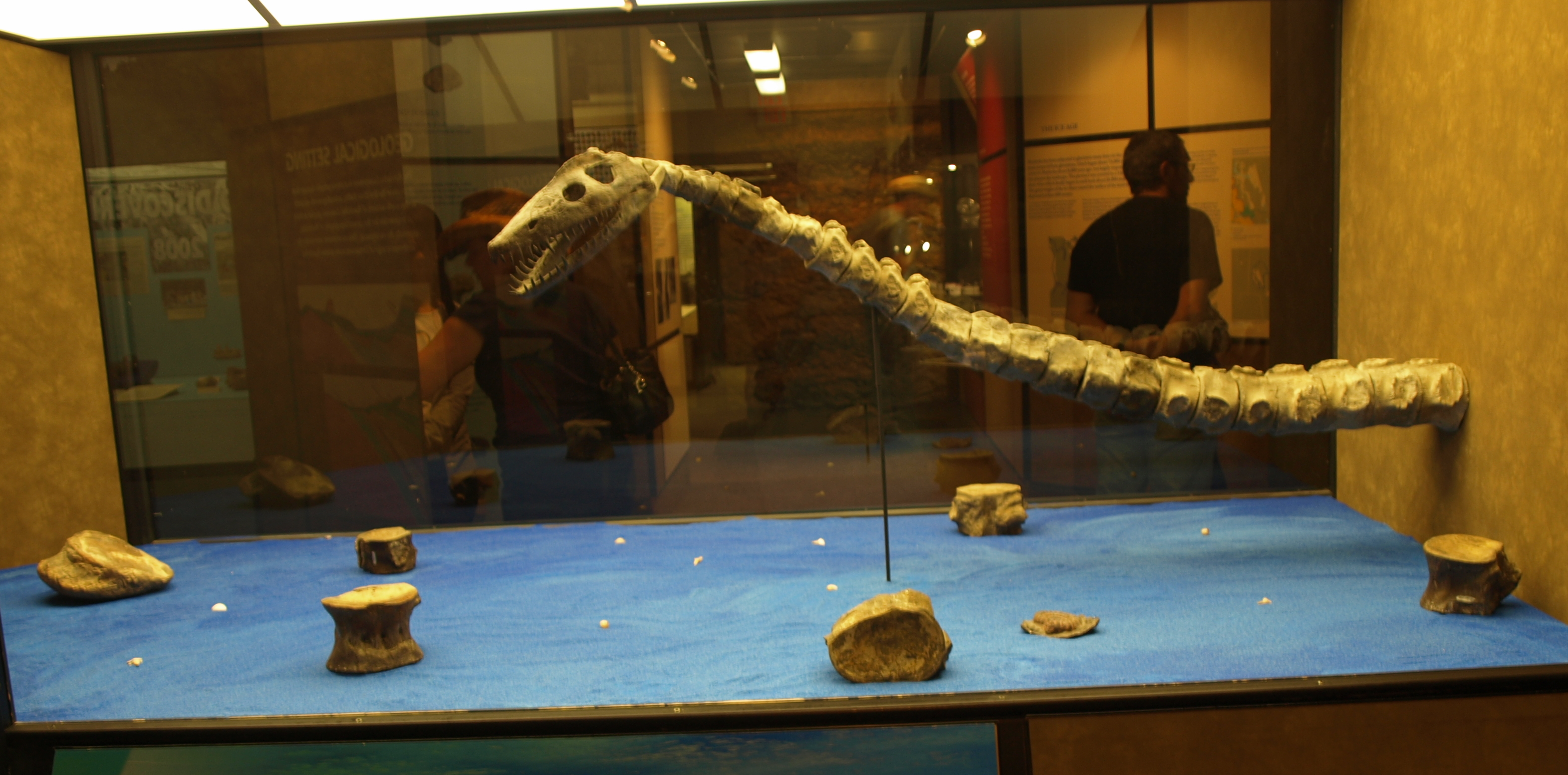 Canadian Fossil Discovery Centre Morden Manitoba Canada